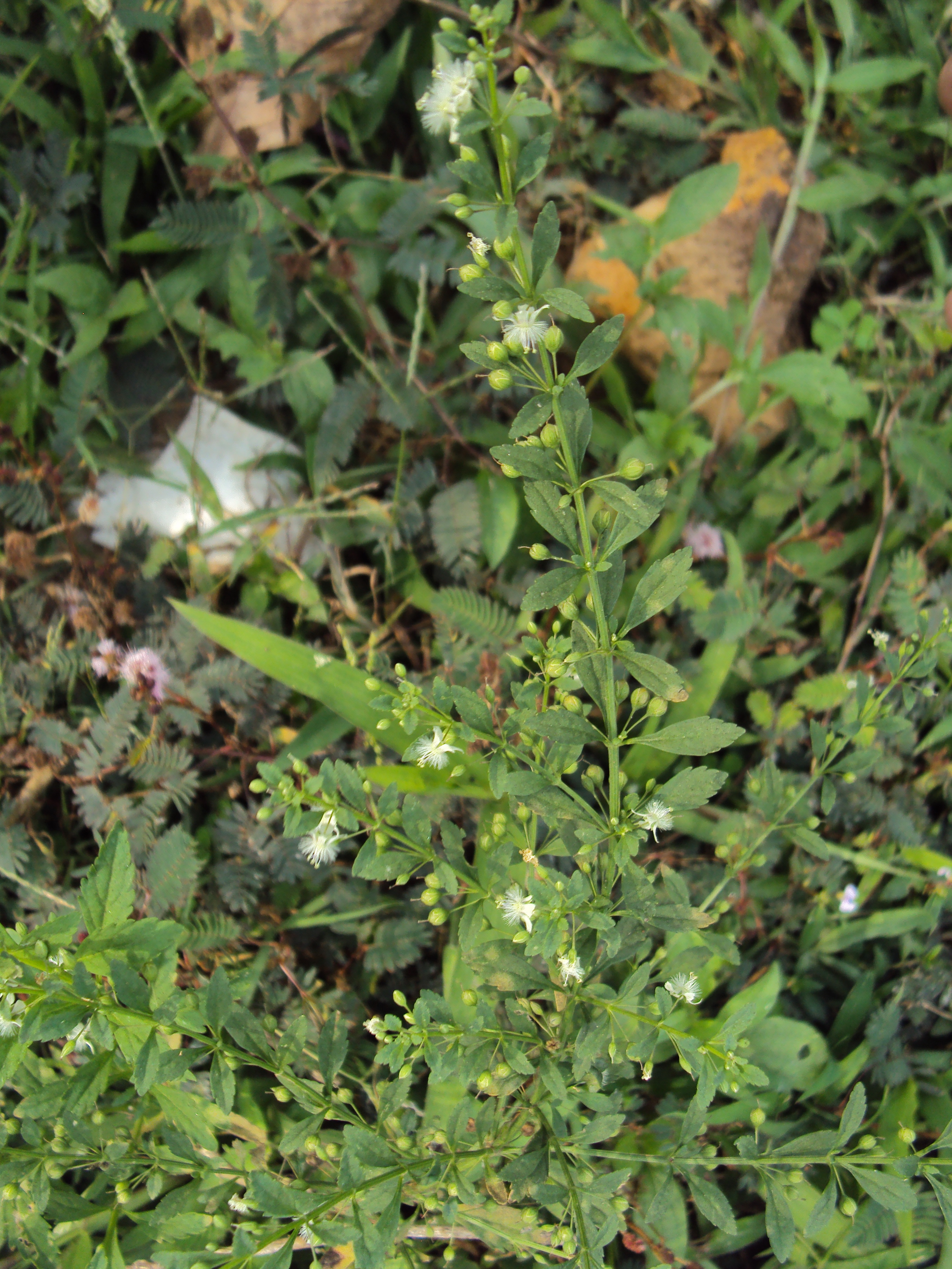 Scoparia dulcis